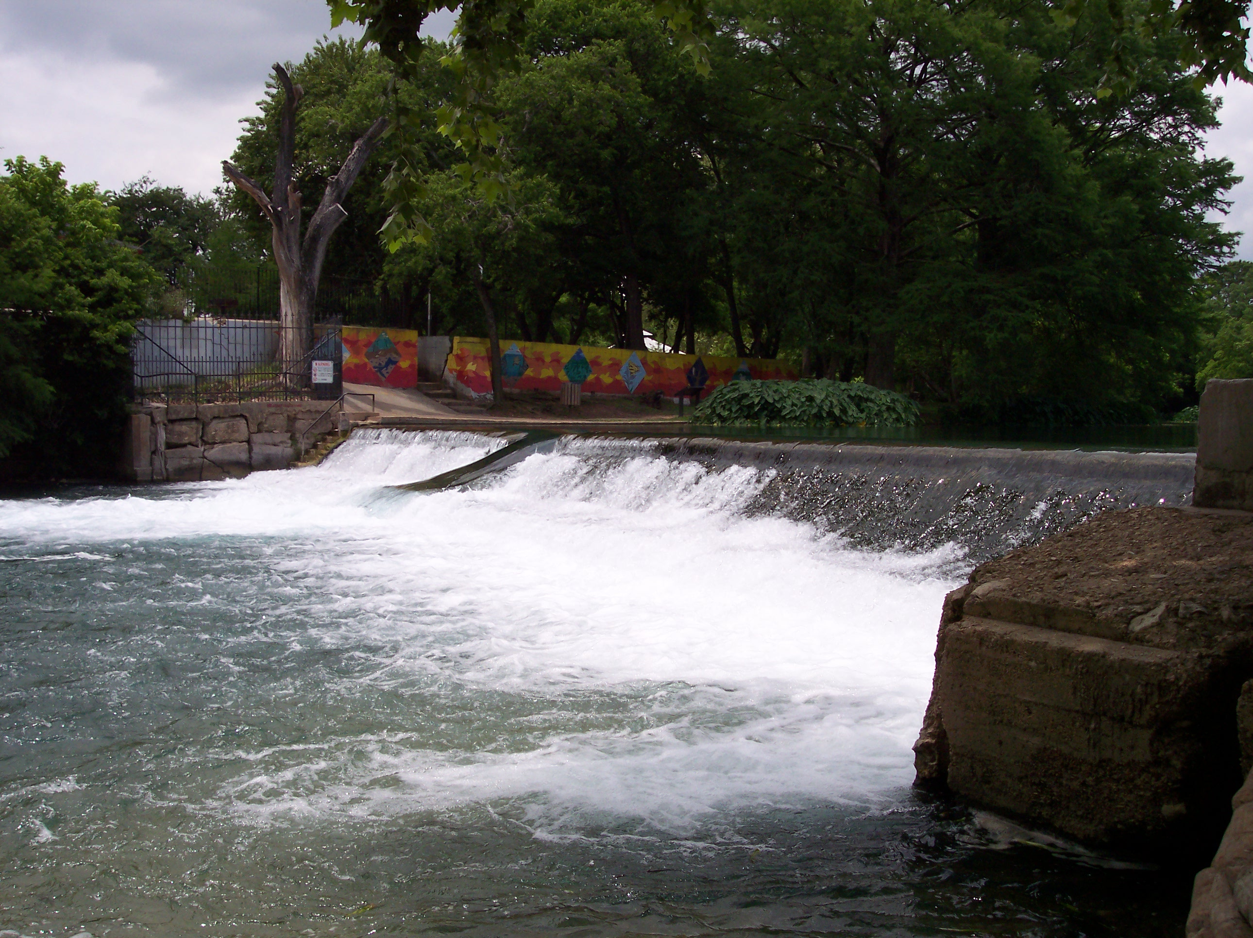 The (now former) Rio Vista Dam in San Marcos, Texas.